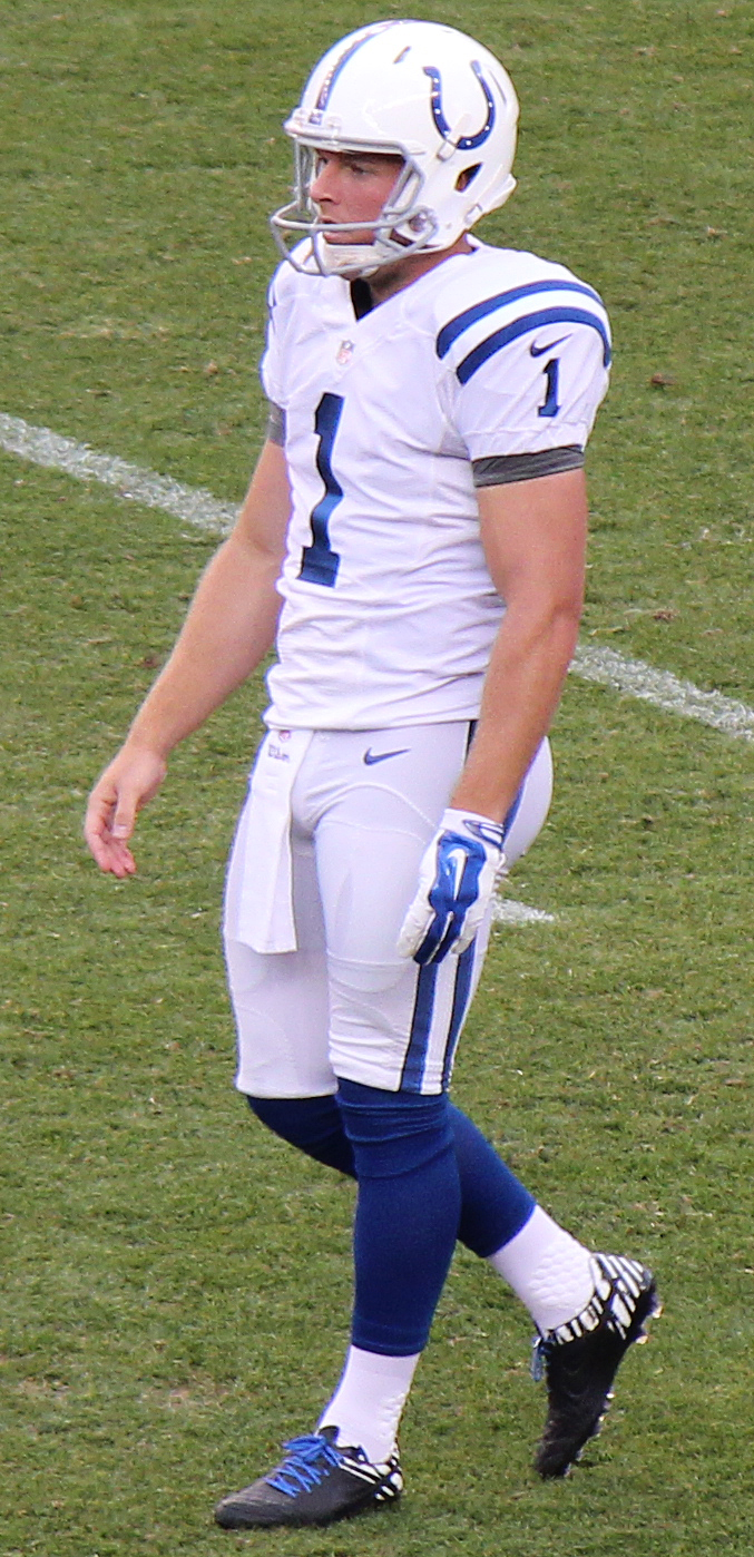 Pat McAfee, a player in the National Football League.